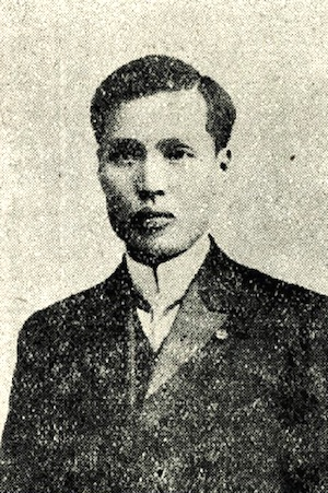 朱麗 Chū Lē